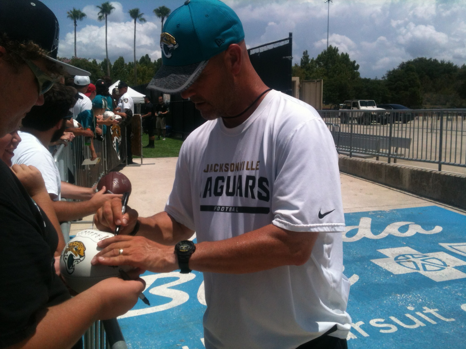 Jacksonville Jaguars quarterback Blake Bortles signs an autograph for a fan at Jaguars training came, July 30.